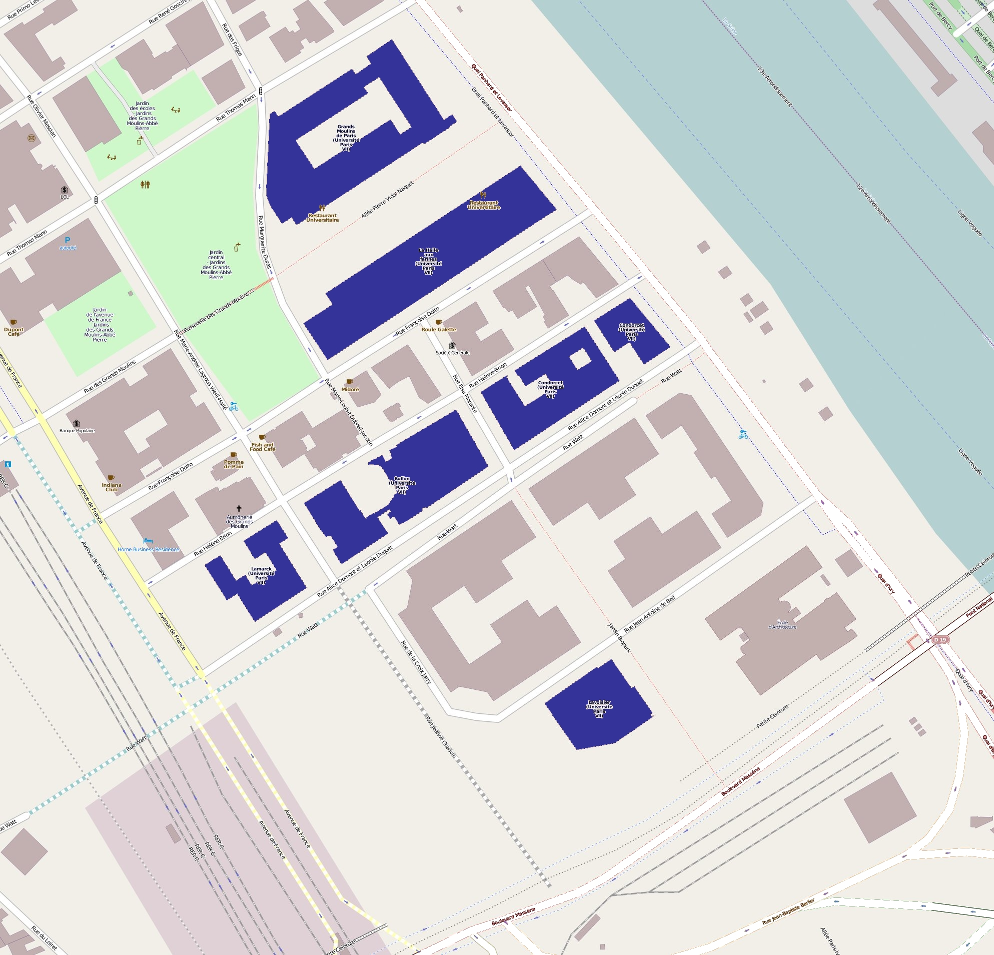 University of Paris 7' "Paris rive gauche" campus